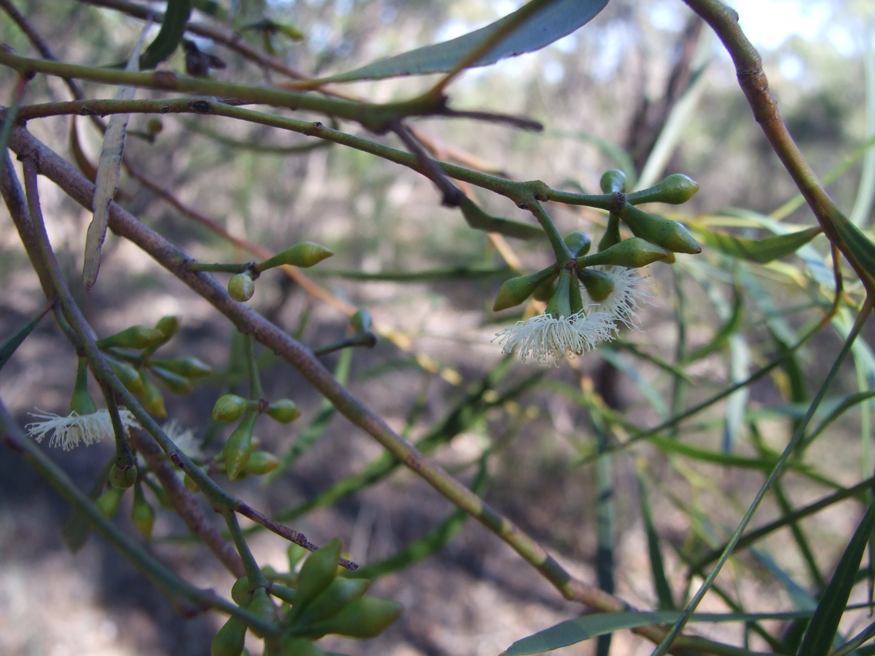 Green Mallee, Eucalyptus viridisin the Whipstick National Park, Central Victoria. The name Whipstick apparently derives from the fact that they were considered ideal for switches by the early bullock drivers. Mallee trees are a dwarf multi-stemmed eucalypt which grow a number of trunks arising from the lignotuber in the ground rather than as a single-stemmed plant, it will grow to a height of about ten meters. Green Mallee, Eucalyptus viridisin is cultivated for the production of eucalyptus oil.